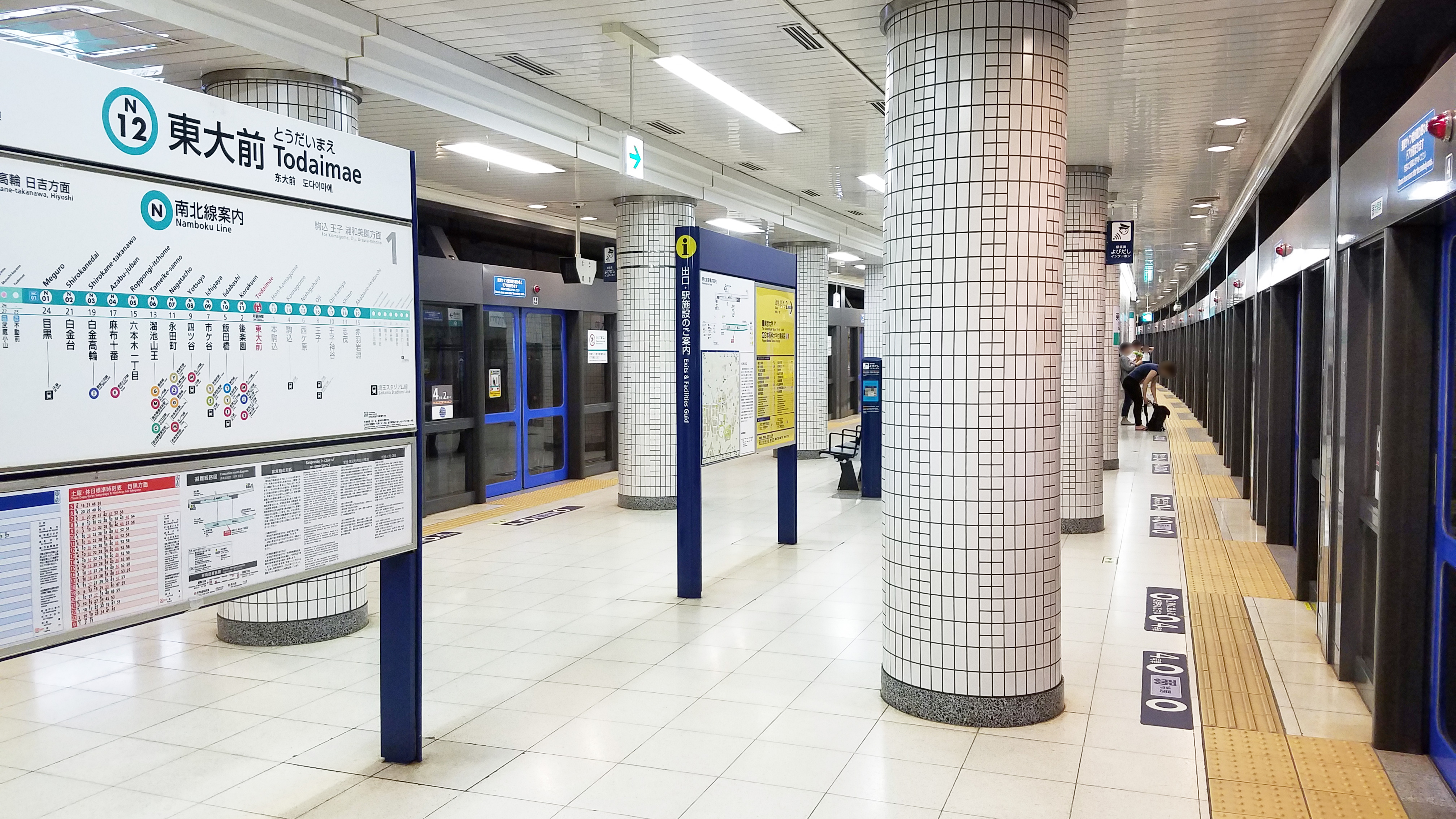 The platform at Tōdaimae Station on the Tokyo Metro Namboku Line in Bunkyo city, Tokyo, Japan